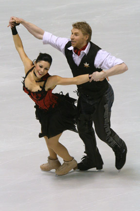 2008 European Figure Skating Championships - Isabelle Delobel and Olivier Schoenfelder